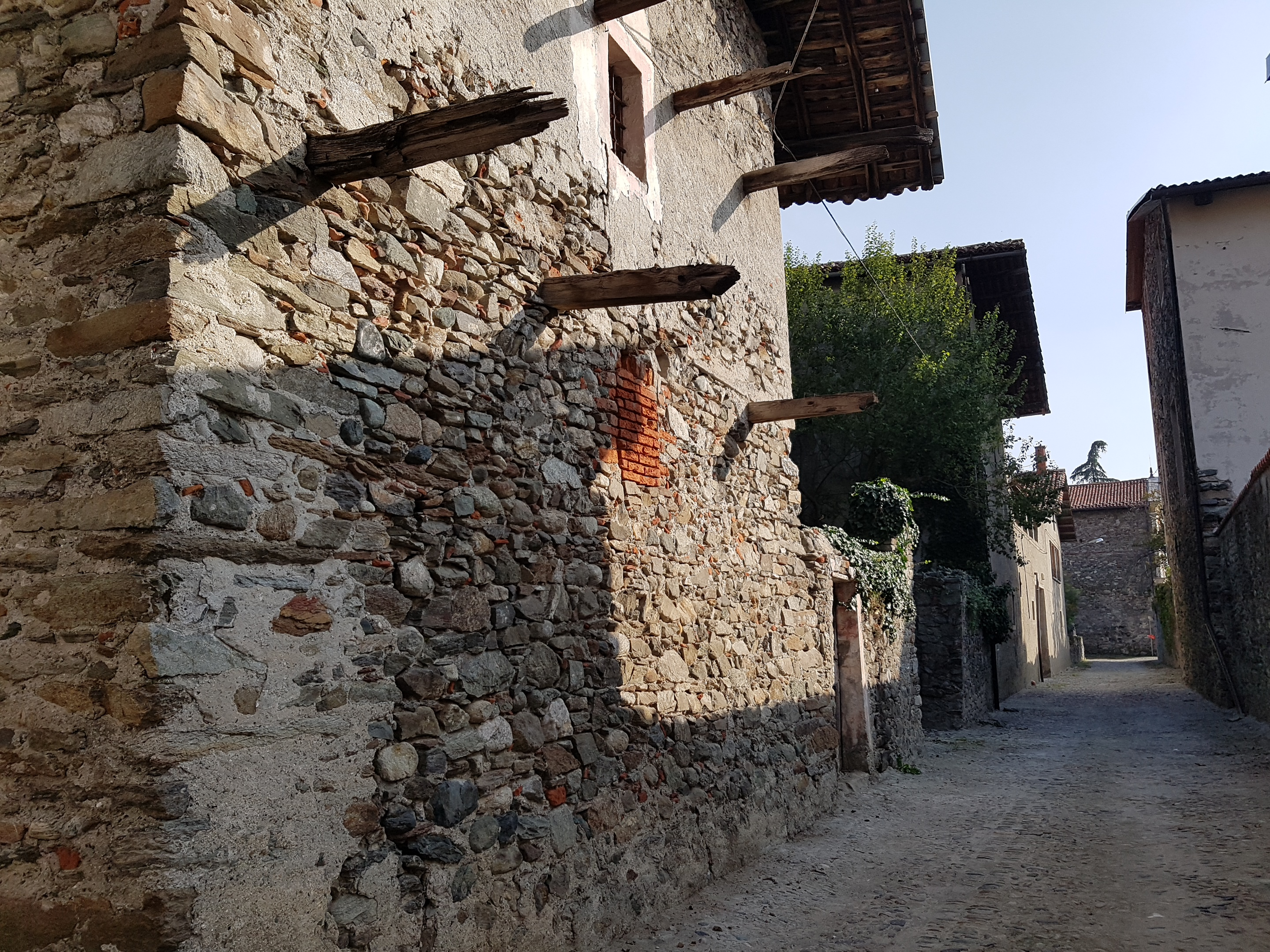 Shelter (Ricetto), Borgofranco d'Ivrea, Northern Italy